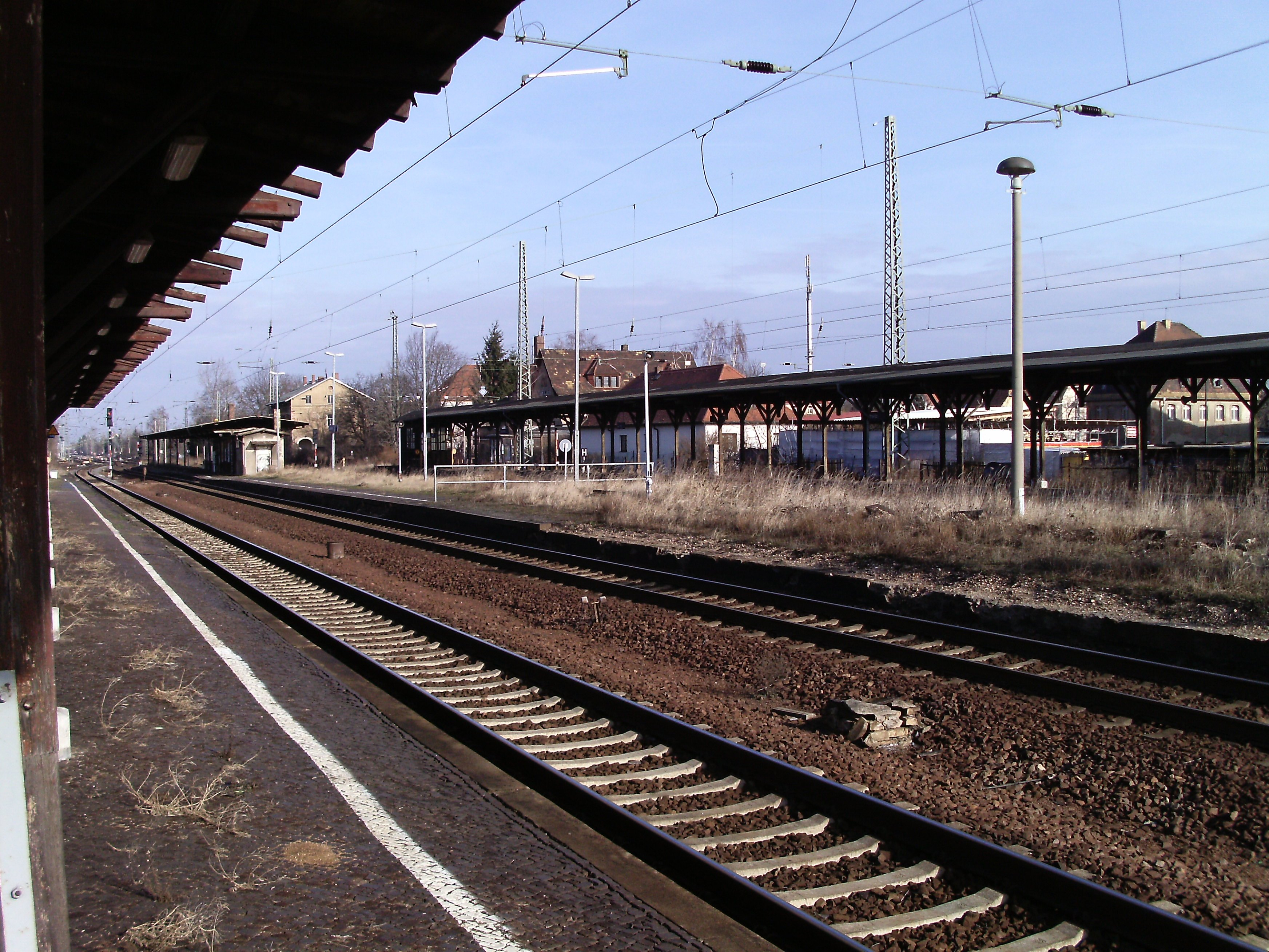 Gaschwitz railway station (Markkleeberg, Leipzig district, Saxony)